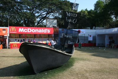 Pirates theme of Mood Indigo 2009